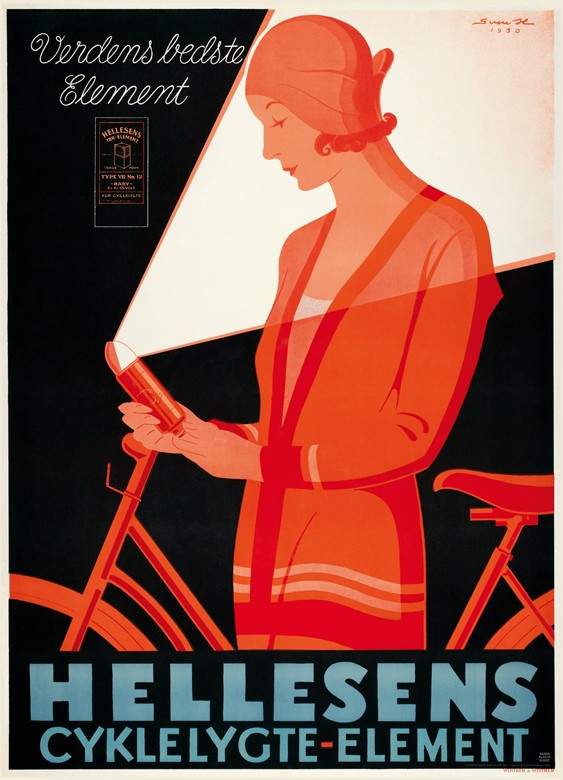 Advertisement poster for Hellesens Cykellygte-Element